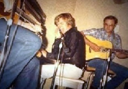 Lucy Opry Memphis